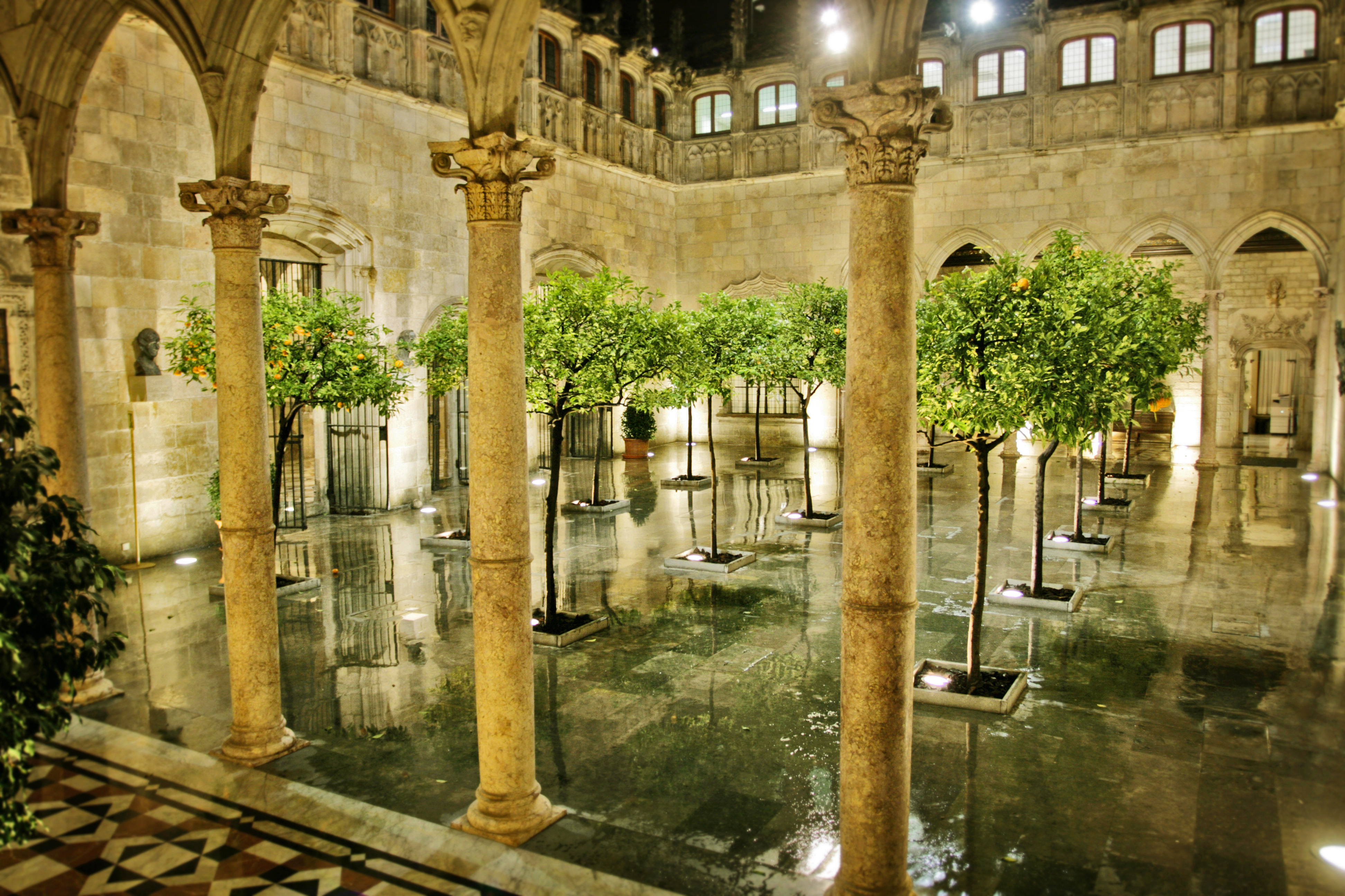 The Pati dels Tarongers ("Orange Tree Courtyard") is located at the Palace of the Generalitat, the seat of the Catalan Government in Barcelona